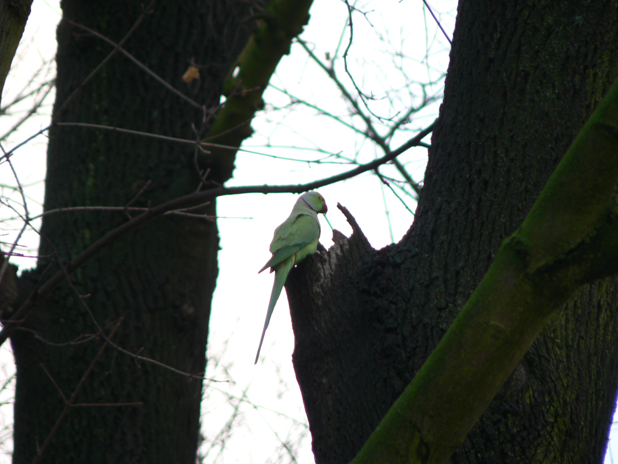 Rose-ringed_Parakeet, Jubelpark, Brussels - own picture